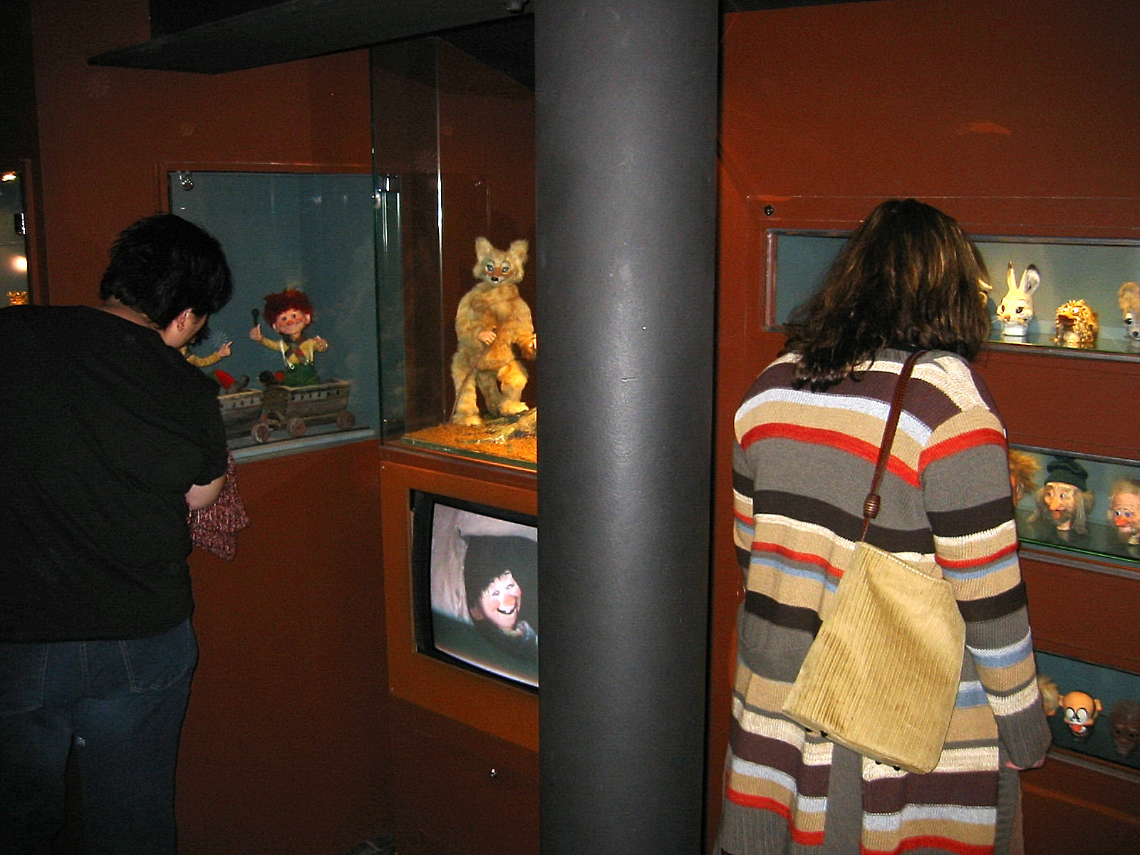 From the Norwegian Film museum, Oslo. Puppets from Ivo Caprino's animated films.